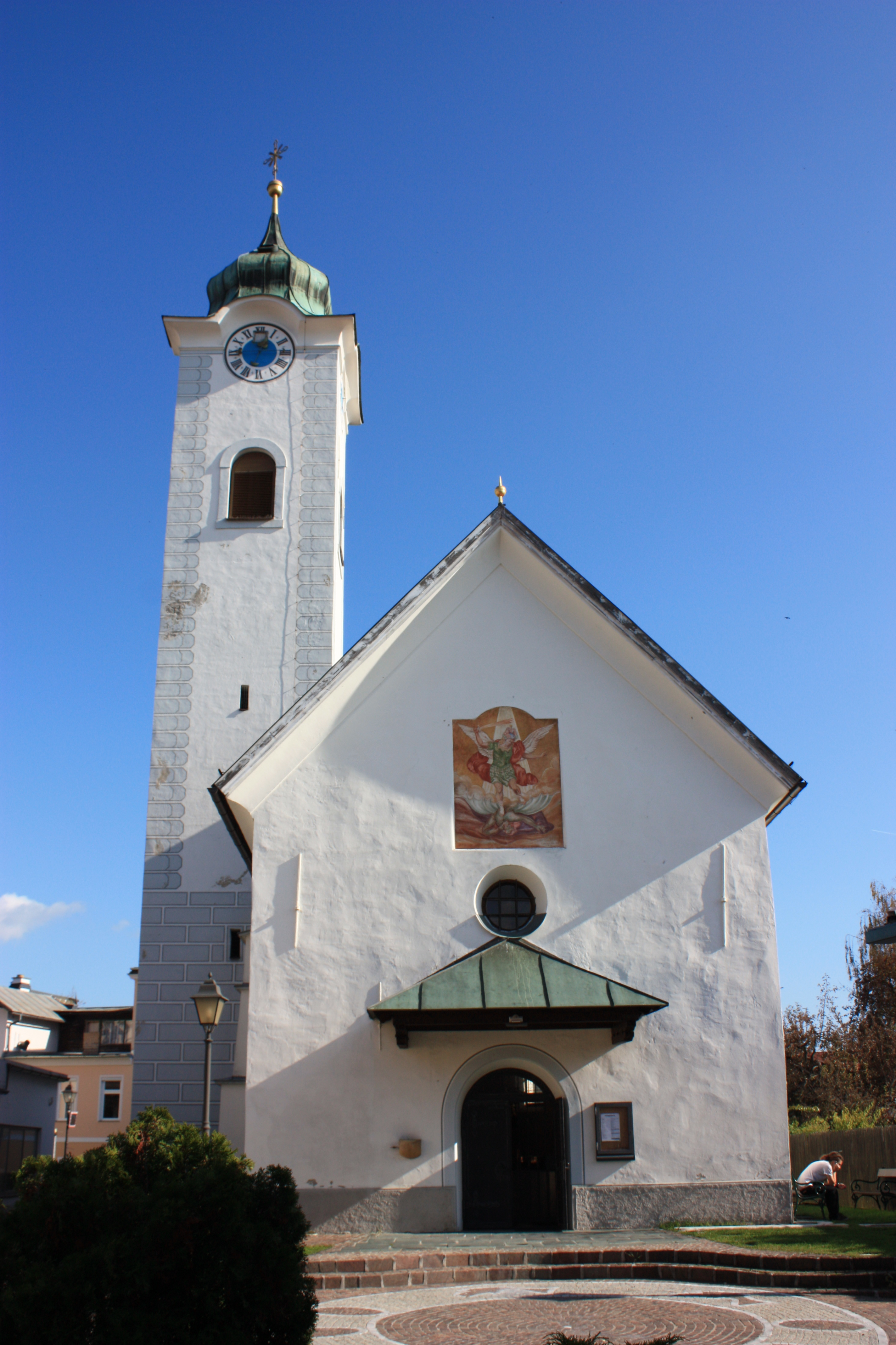 Subsidiary church "Saint Michael" Locality: Ossiacher Straße Community:Feldkirchen in Kärnten